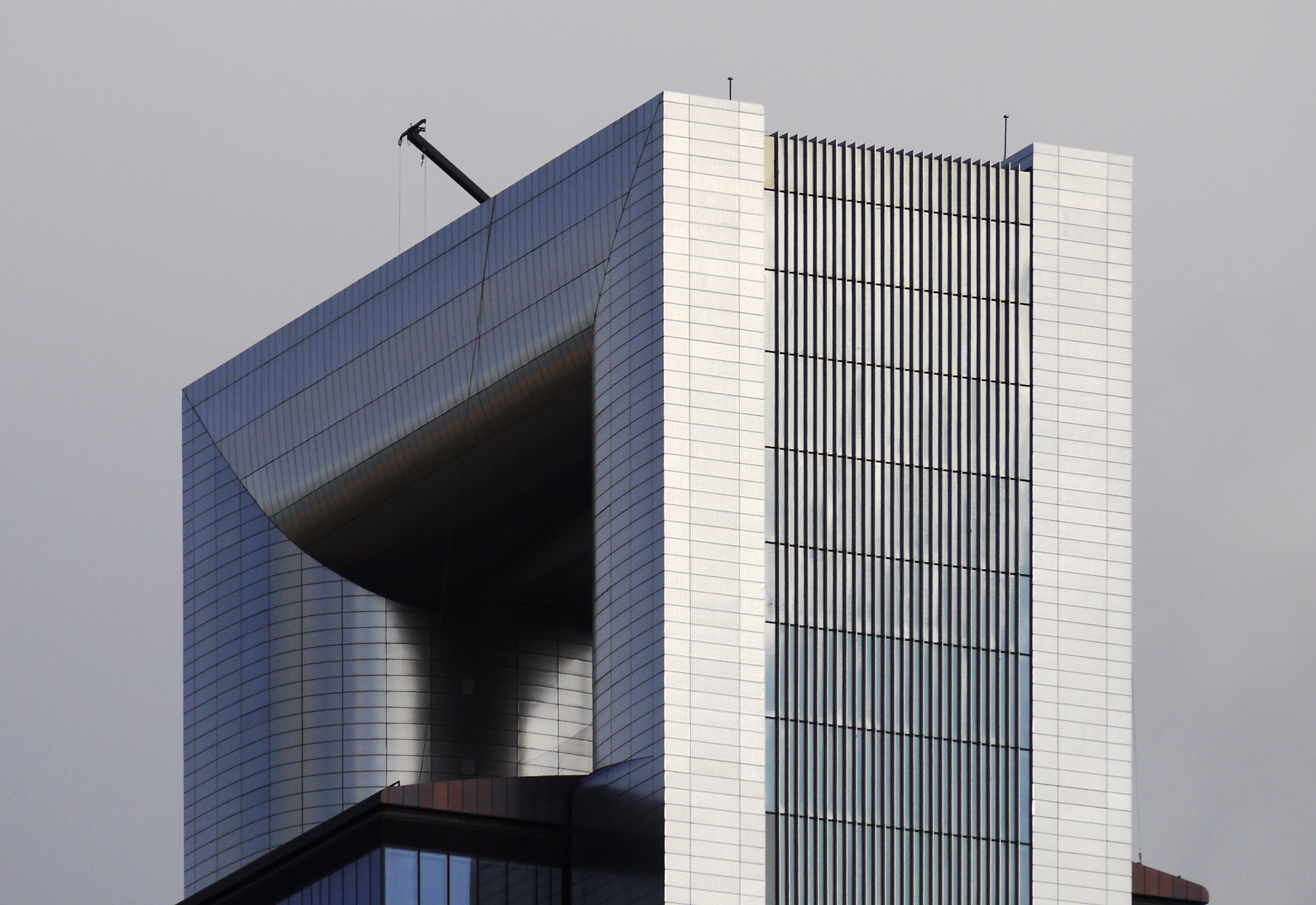 Madrid Cuatro Torres Business Area, Torre Caja Madrid. Madrid, Spain